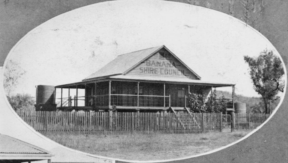 Shire Council building, Rannes, ca. 1930 This building still has the Banana Shire Council name on it as it has just been removed and relocated to Rannes from Banana. (Description supplied with photograph).